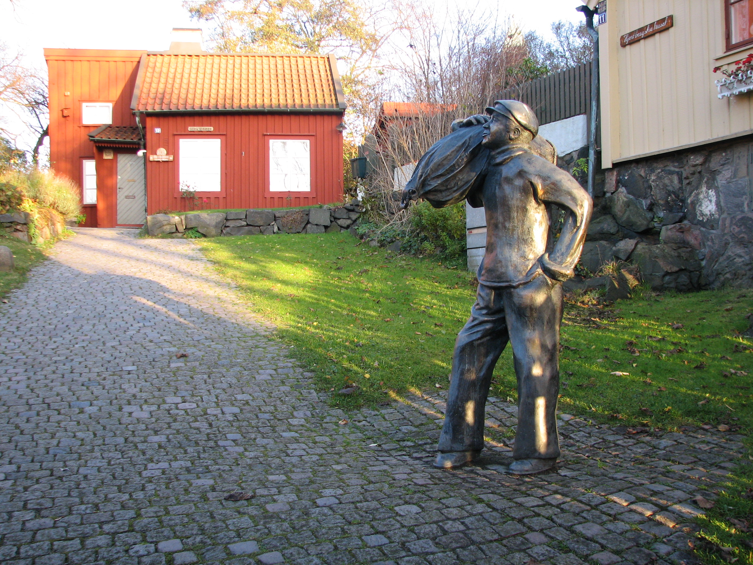 Stigbergs-Lasse by Eino Hanski, a sculpture of a homecoming sailor, standing at Kulturreservatet Gathenhielm in Göteborg, Sweden.